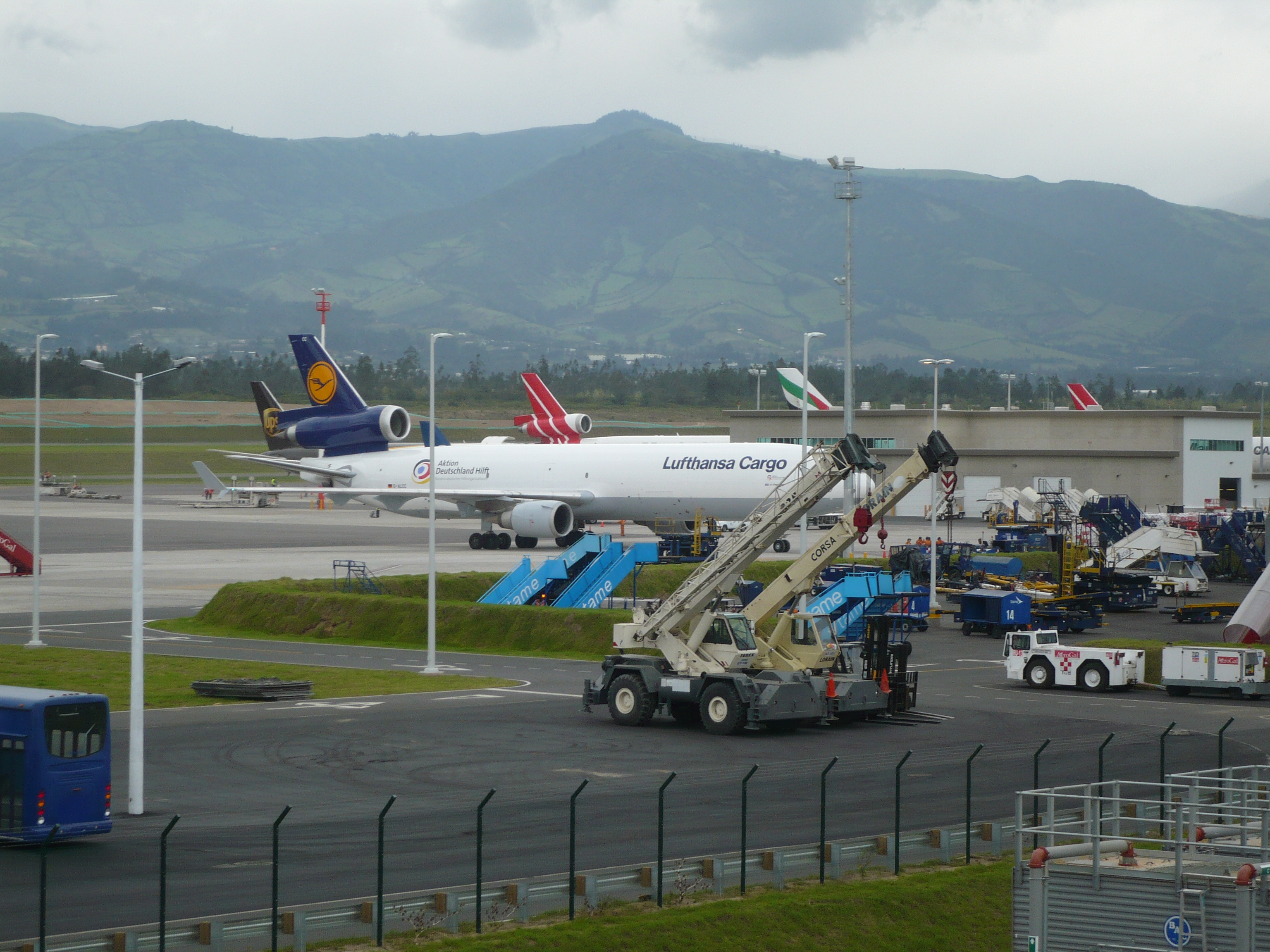 Mariscal Sucre Airport